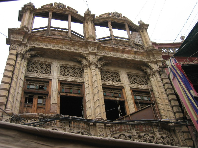 Author: Zeeshan Javeed Taken photo during a trip to Multan, Pakistan in 2005.